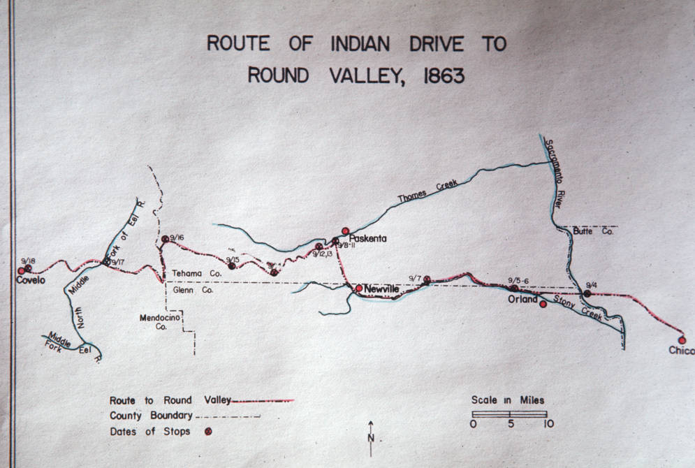 Map of forced migration of Maidu to Round Valley in 1863